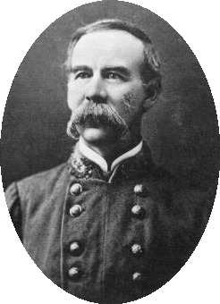 Photo of Joseph B. Palmer (1825-1890)